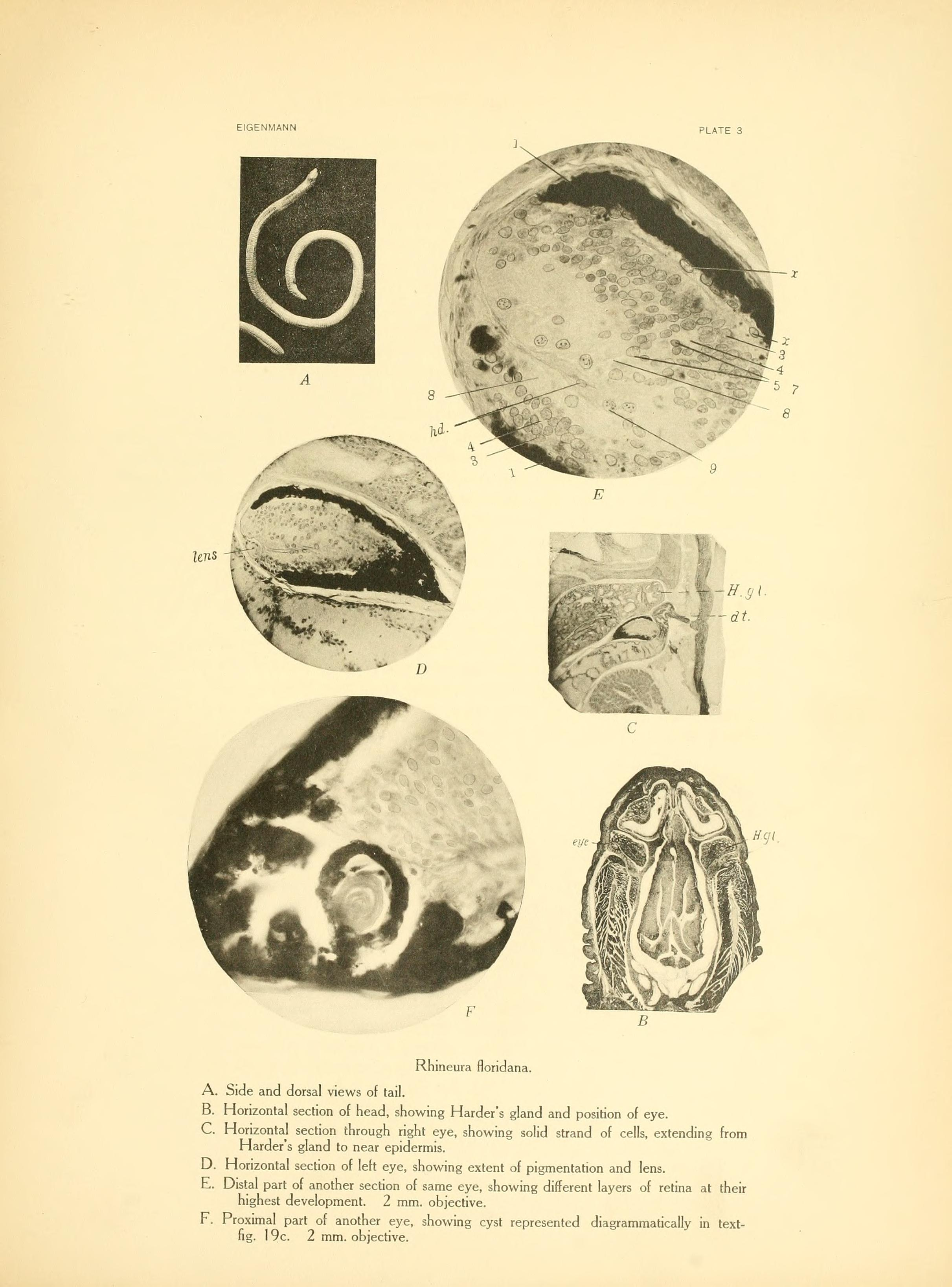 Title: Cave vertebrates of America; a study in degenerative evolution Year: 1909 (1900s) Authors: Eigenmann, Carl H. , 1863-1927 Subjects: Cave animals; Evolution Publisher: Washington, D. C. , Carnegie Institution of Washington Text Appearing Before Image: EIGENMANN Text Appearing After Image: Rhineura floridana. A. Side and dorsal views of tail. B. Horizontal section of head, showing Harder's gland and position of eye. C. Horizontal section through right eye, showing solid strand of cells, extending from Harder's gland to near epidermis. D. Horizontal section of left eye, showing extent of pigmentation and lens. E. Distal part of another section of same eye, showing different layers of retina at their highest development. 2 mm. objective. F. Proximal part of another eye, showing cyst represented diagrammatically in text- fig. 19c. 2 mm. objective.